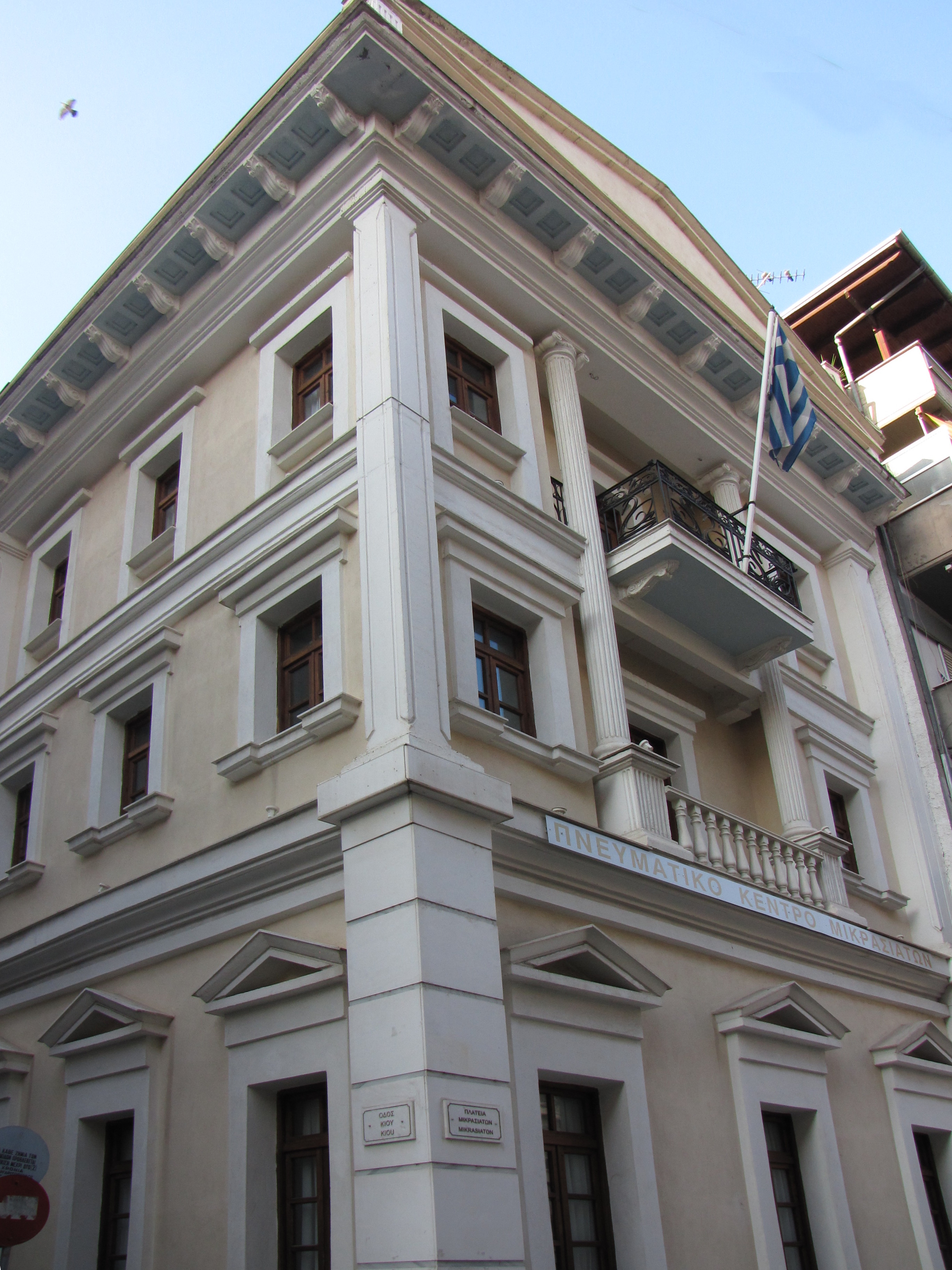 Building of the club Mikrasiaton Pierias